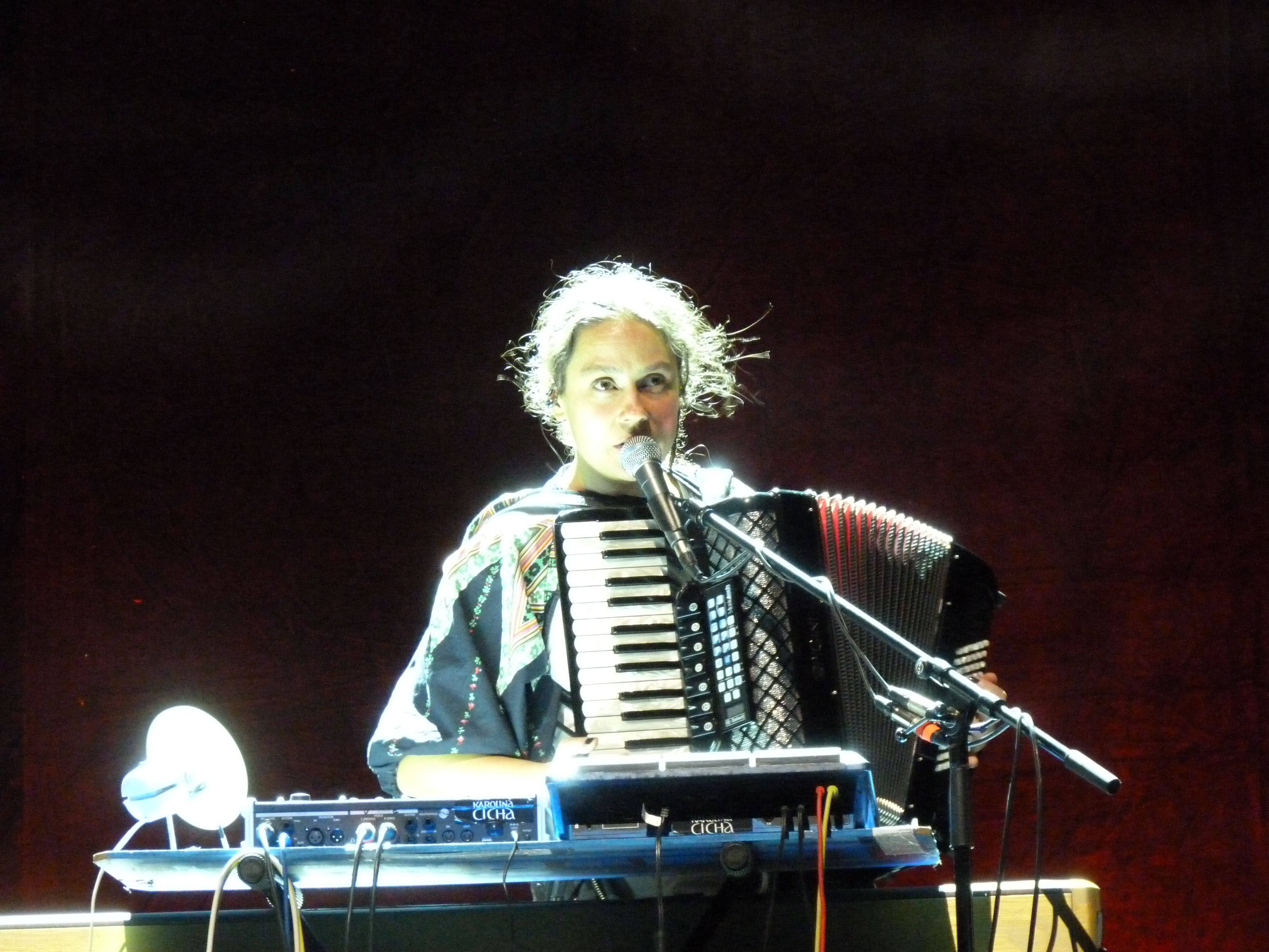 Live on the 24th of October, 2015. WOMEX 15, Budapest, Hungary.Karolina Cicha.